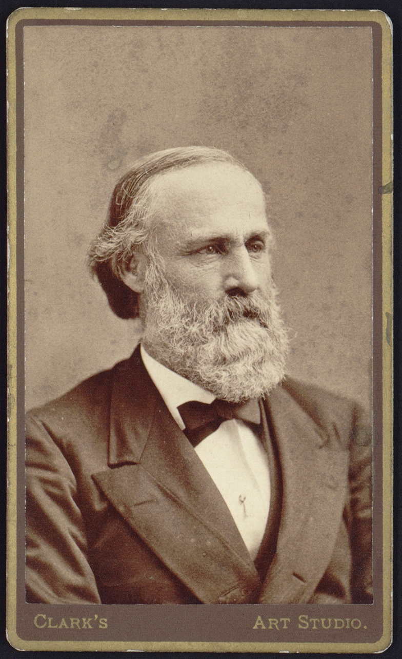 Henry Laurens Dawes. Head-and-shoulders photographic portrait, facing right from Clark's Art Studio. CREATED/PUBLISHED: ca. 1880 Printed on verso in a design with escutcheon topped with large-format camera: Clark, Pittsfield, Mass. REPOSITORY: Library of Congress Prints and Photographs Division Washington, D.C.